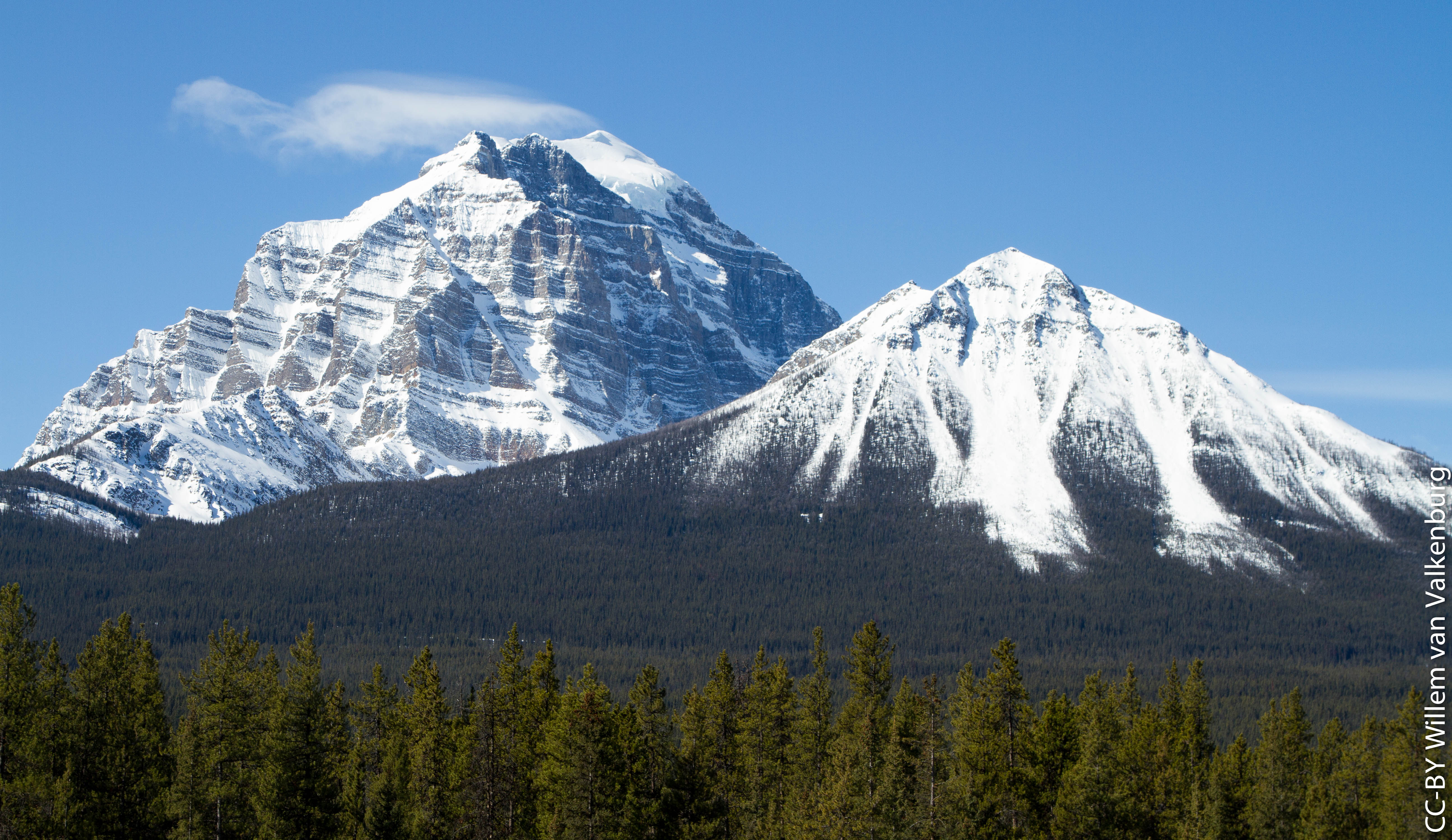 Mount Temple and Little Temple near Lake Louise, Ab, Canada